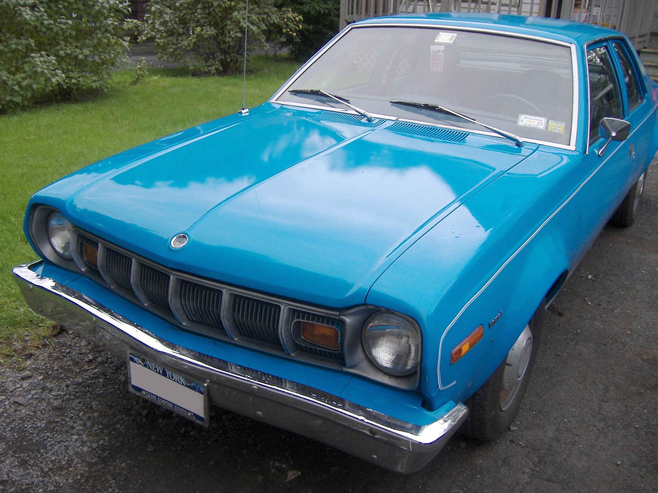 A 1975 AMC Hornet two door sedan. This car was painted and is not an original color.